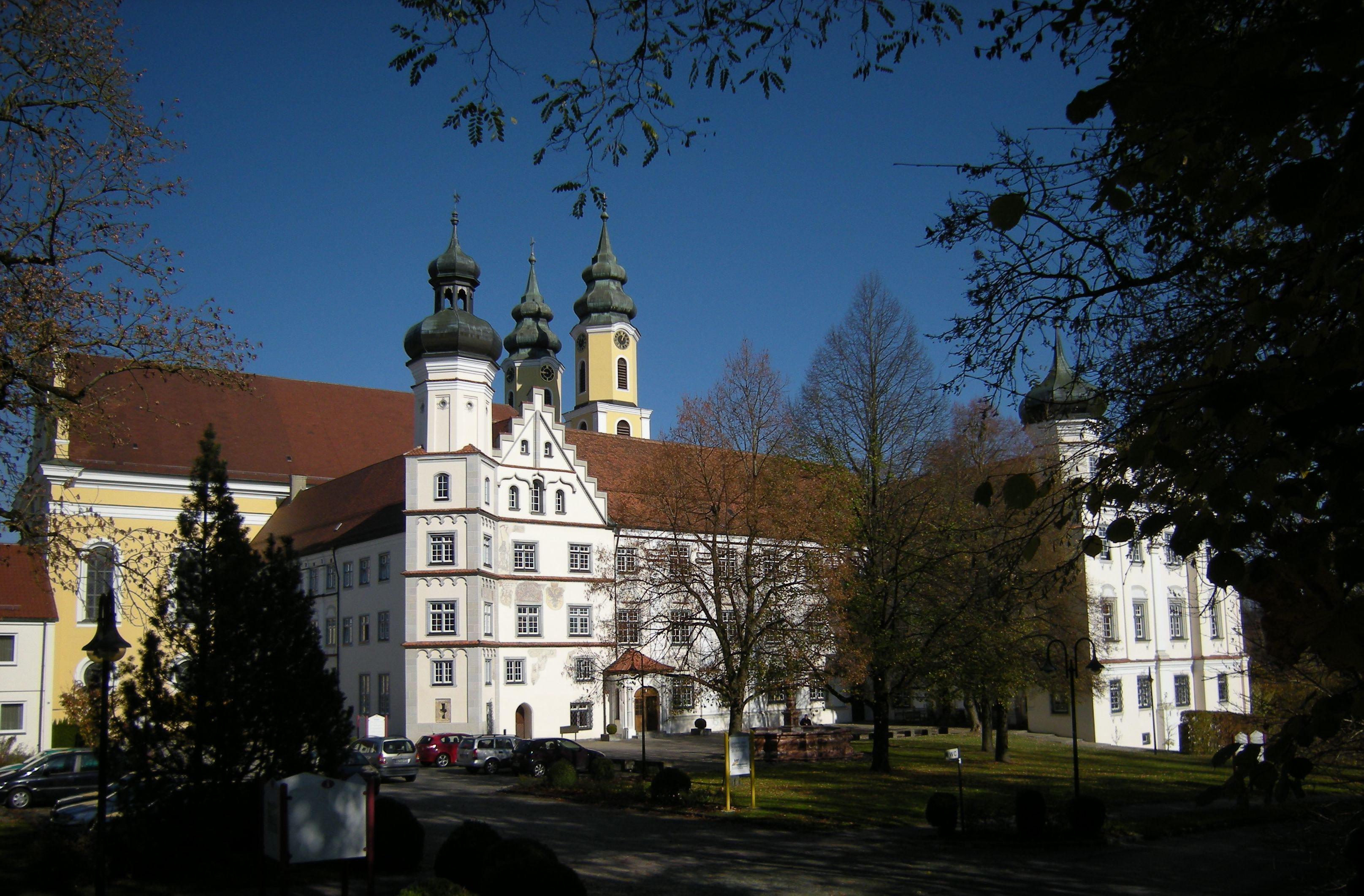 Abbey St. Verena in Rot an der Rot